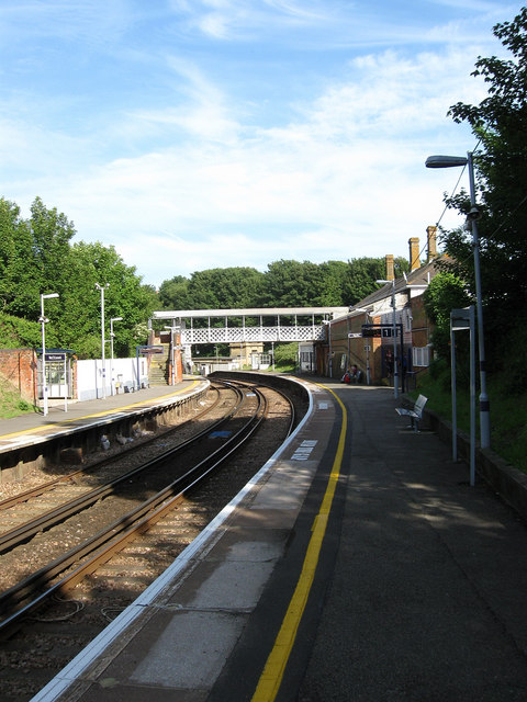 West St Leonards Station. View of the footbridge and station building of the station. See 526212 for a front view.